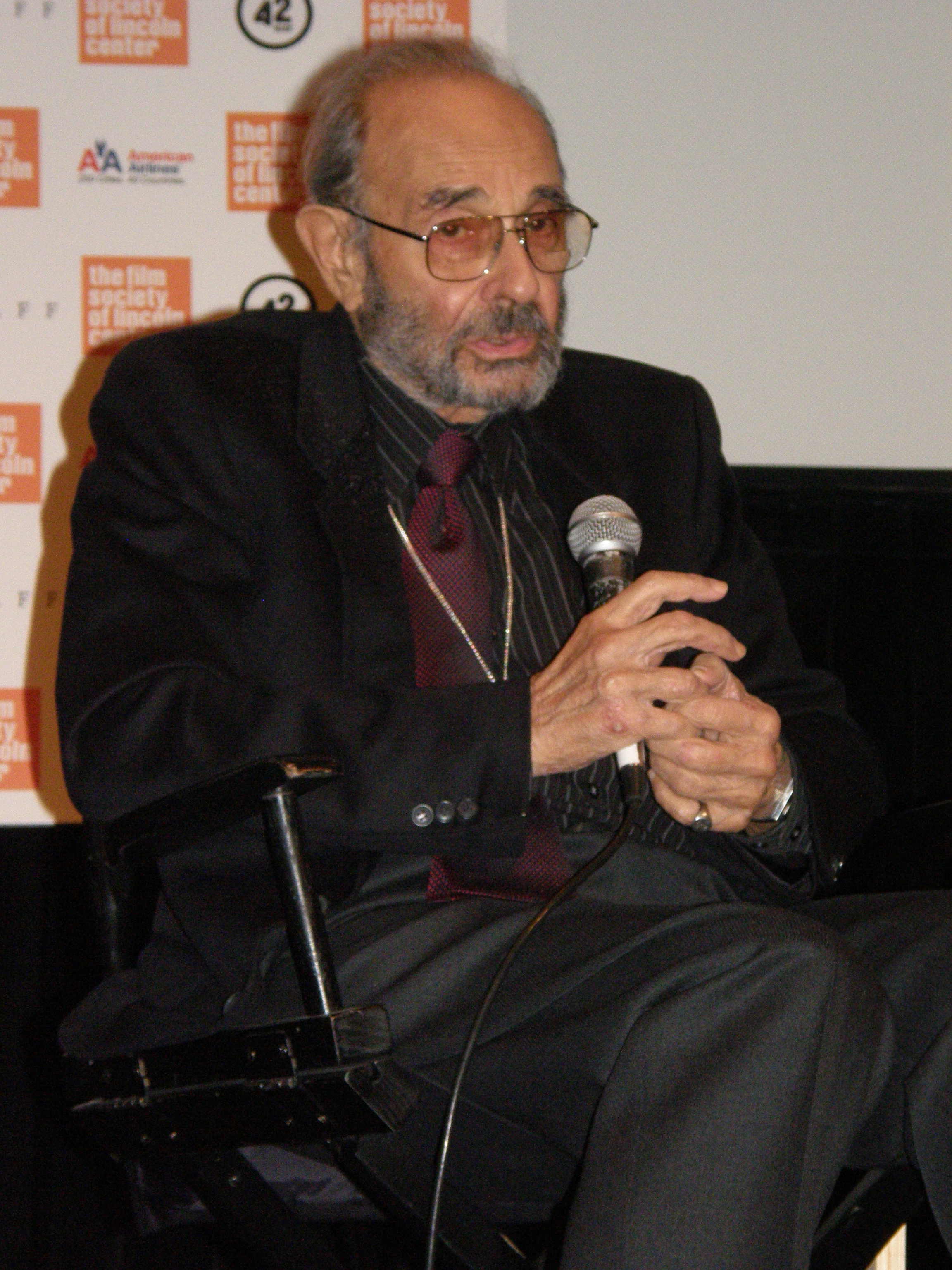 Film Society of Lincoln Center's Retrospective; Q&A after screening of FUNNY FACE.